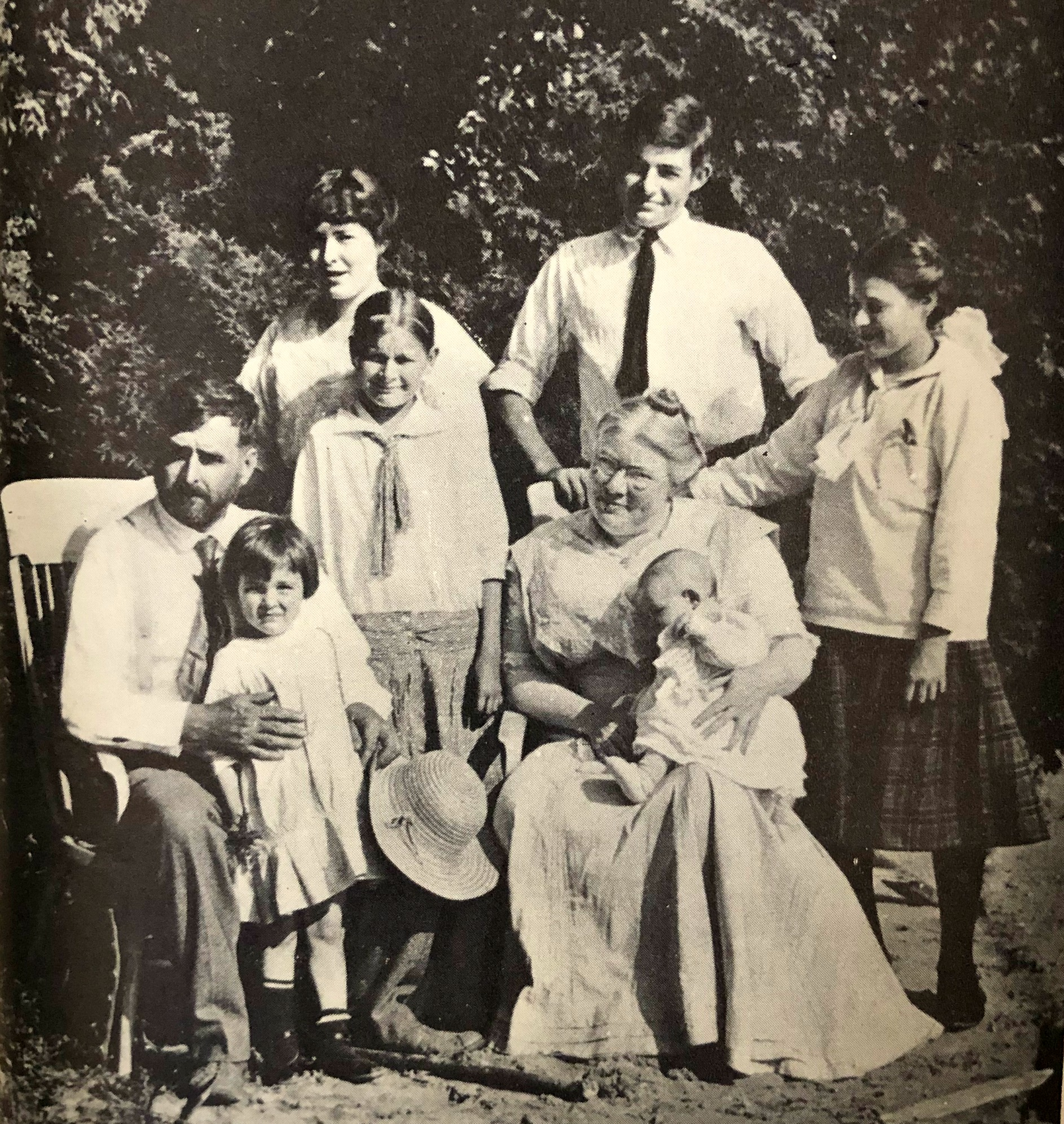 The Hemingway family at their cabin in Michigan. Standing rear, left to right, Marcelline, Sunny, Ernest and Ursula. Seated: Dr. Hemingway with Carol, Grace holding baby Leicester